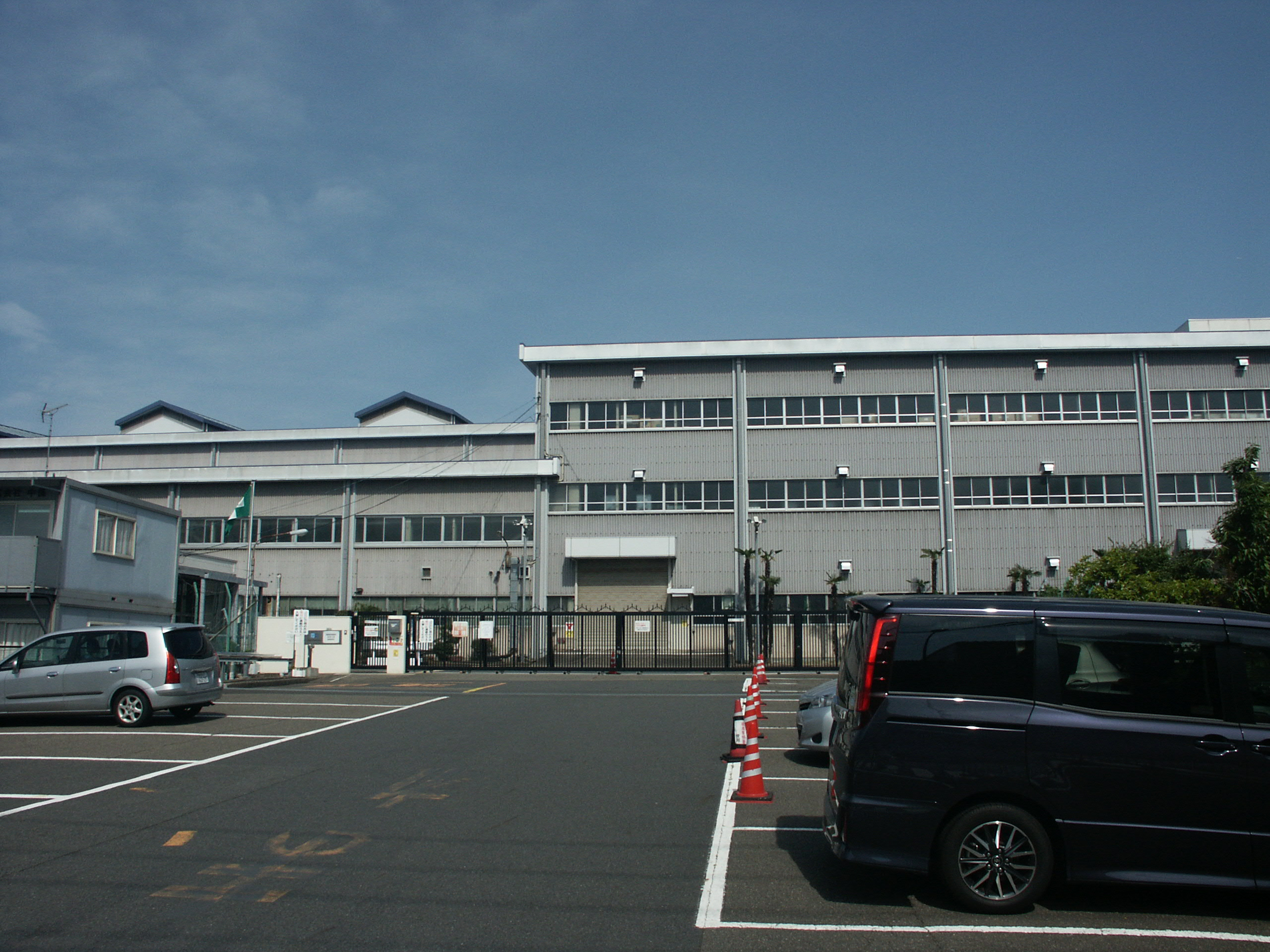 Tokyo Metro Ayase Workshop